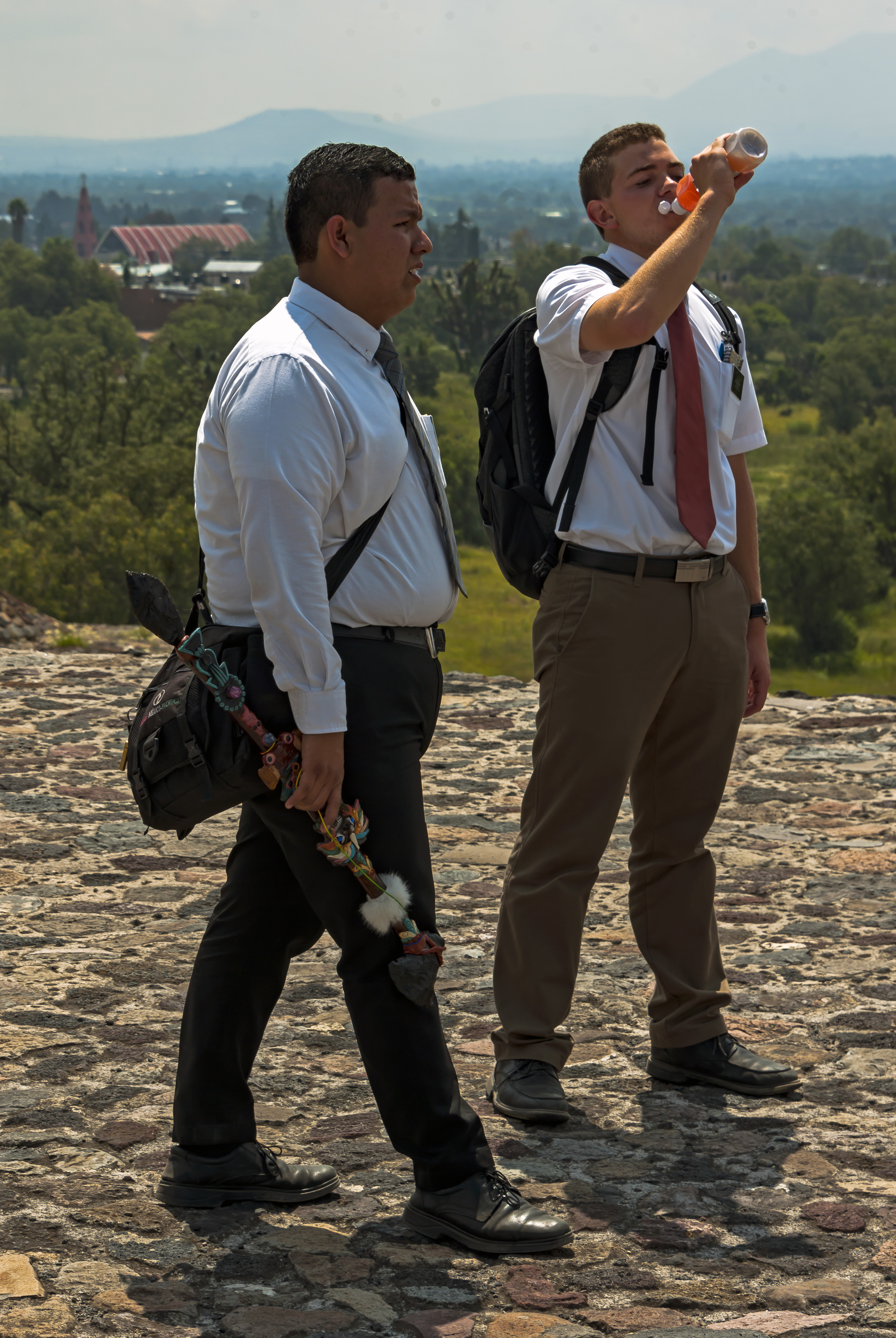 Two Mormon missionaries taking in Teotihuacan from the Pyramid of the Moon